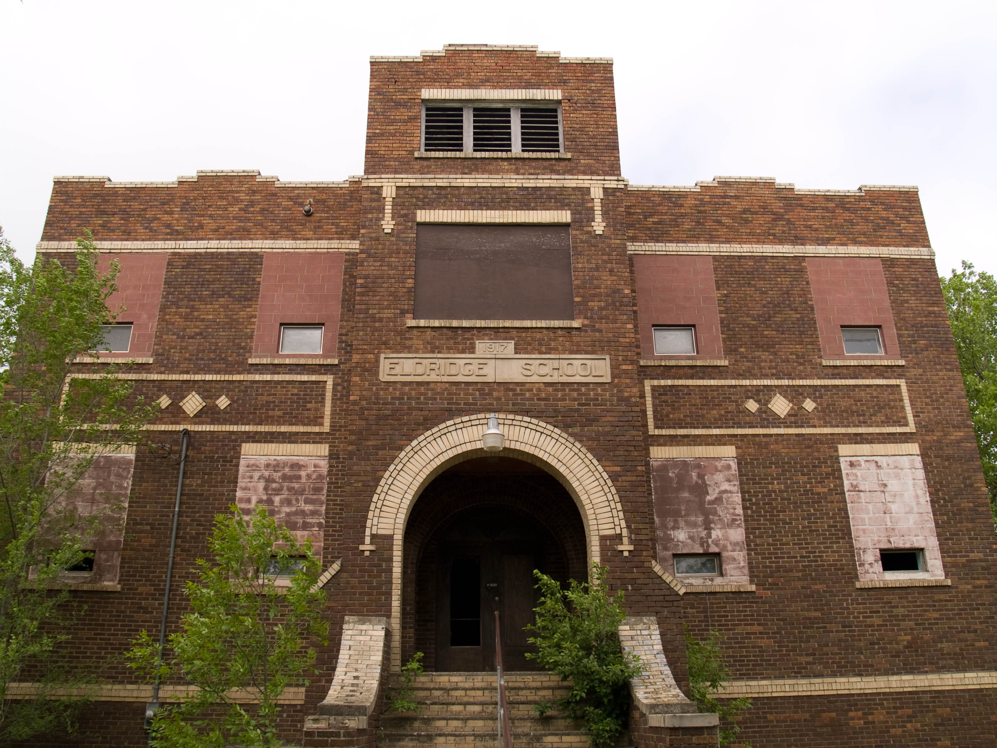 From